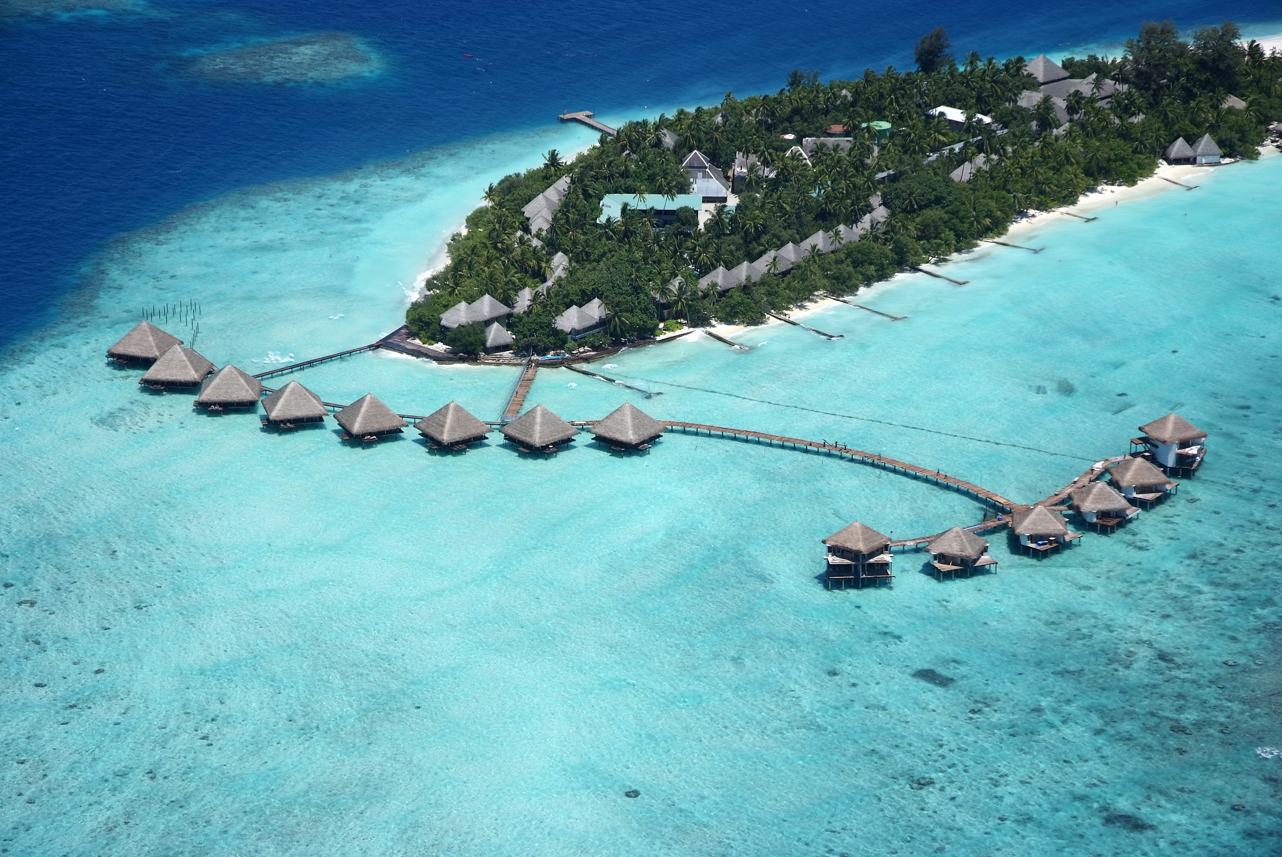 Adaaran Club Rannalhi in Rannalhi, Maldives, operated by Aitken Spence.